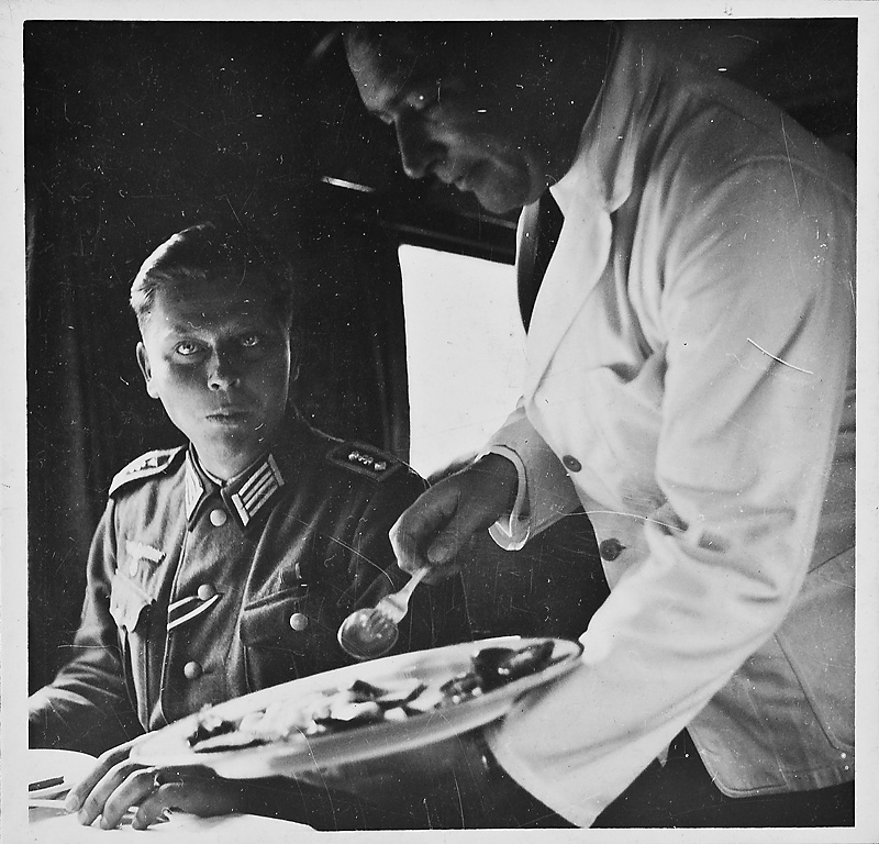 Image from "Photo Album from Terboven's journey to Nothern Norway and Finland 10–27 July 1942" (Mit dem Reichskommissar nach Nordnorwegen und Finnland 10. bis 27. Juli 1942), 375 images uploaded to www. by Riksarkivet (National Archives of Norway) 2012. See scanned album here